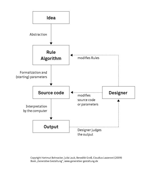 Process for creating generative design